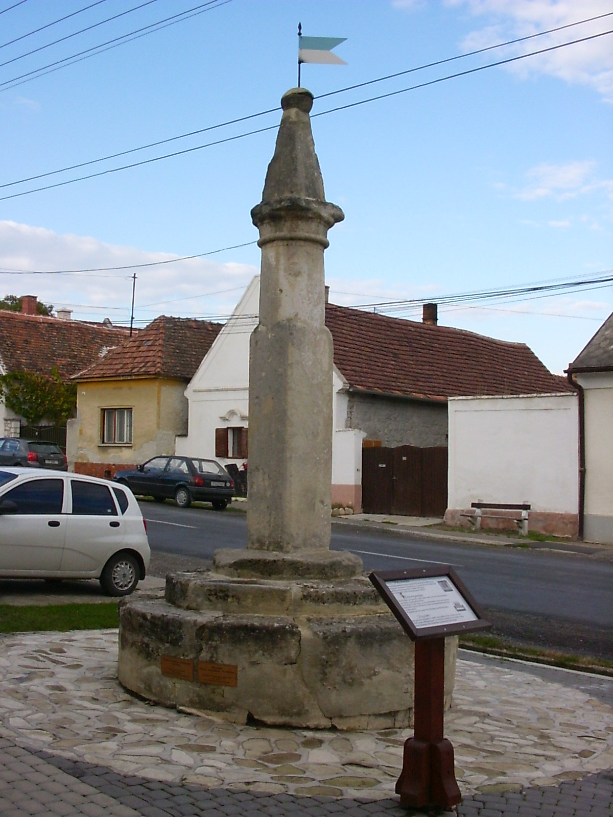 Pillory in Fertőrákos This is a photo of a monument in Hungary. Identifier: 4104